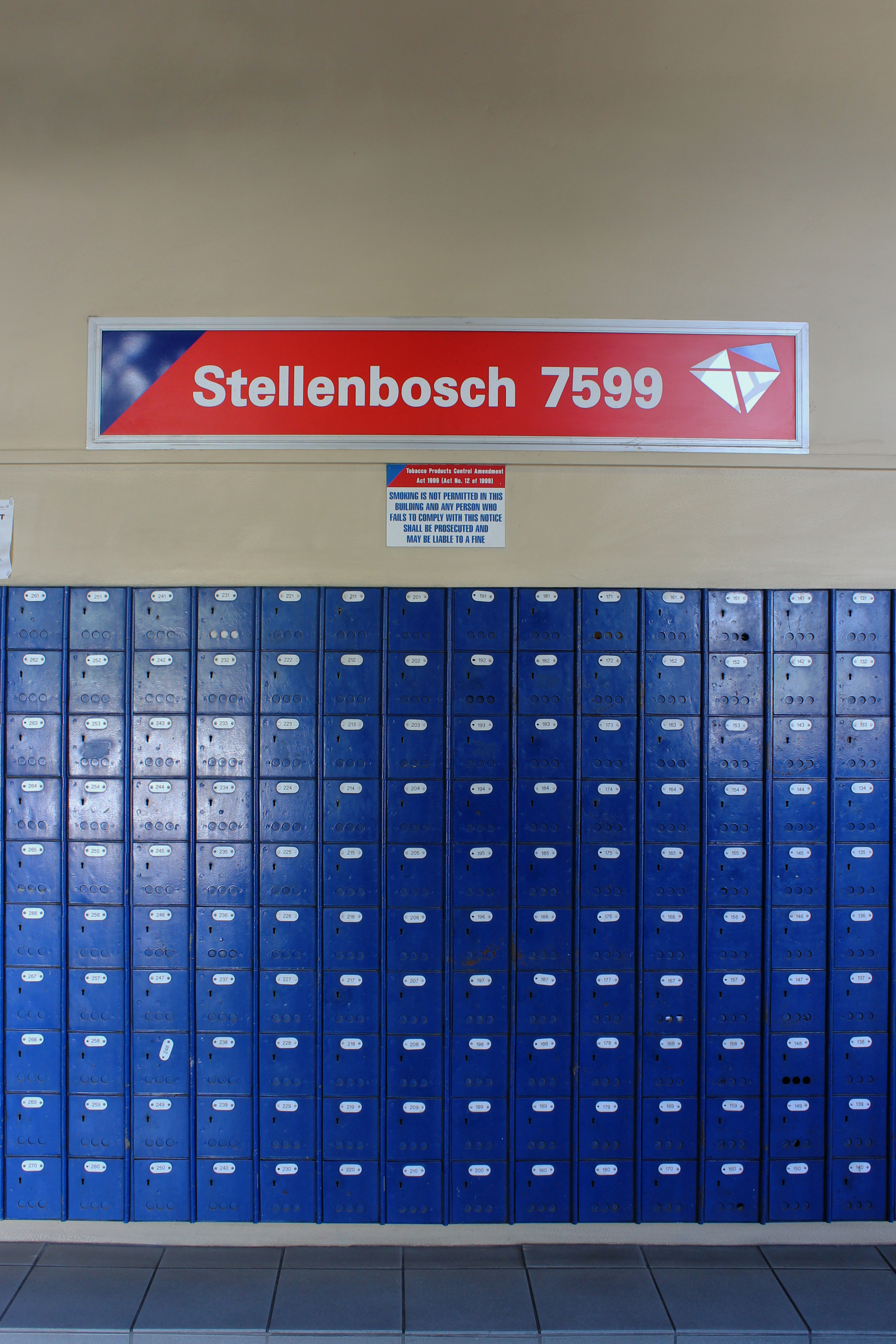 Post office boxes at the Stellenbosch post office. These boxes are accessible to the public directly from the street (this photograph was taken while standing on the front step of the post office). Lessors of the boxes have keys so that they can go to the post office to fetch their mail where it is inappropriate for the mail to be delivered to them.